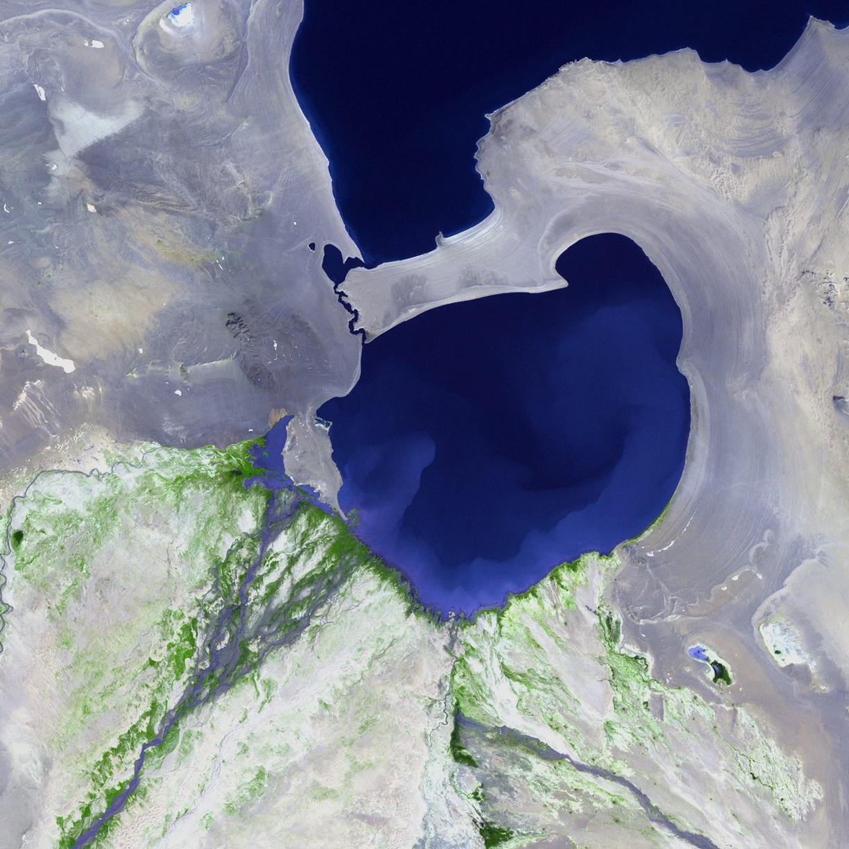 Khyargas-Nuur lake in Mongolia, Lamdsat-7 satellite image